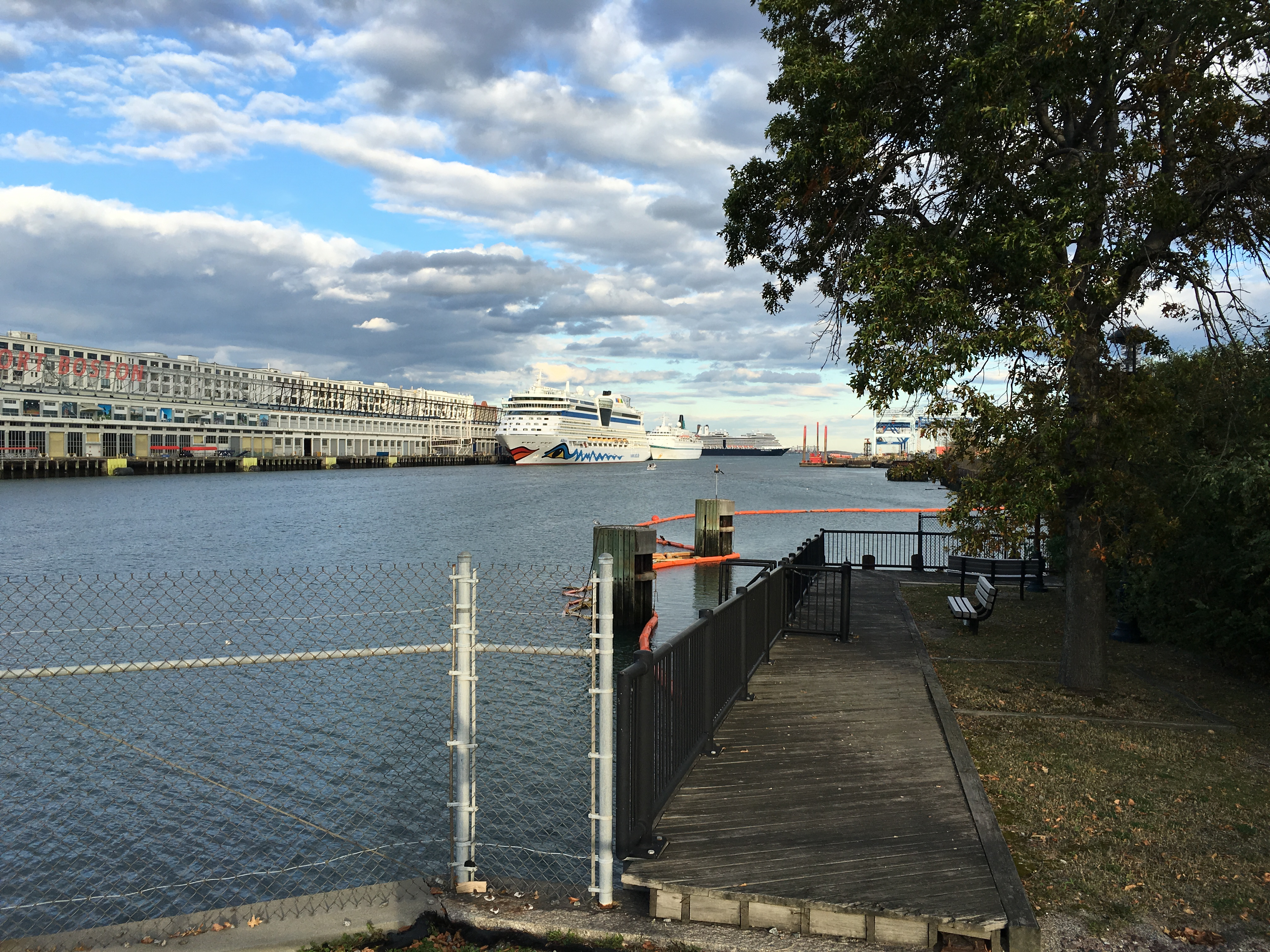 Boston Cruse Terminal with the AIDAdiva and another ship docked, while the Holland America Line Eurodam departs in the distance.